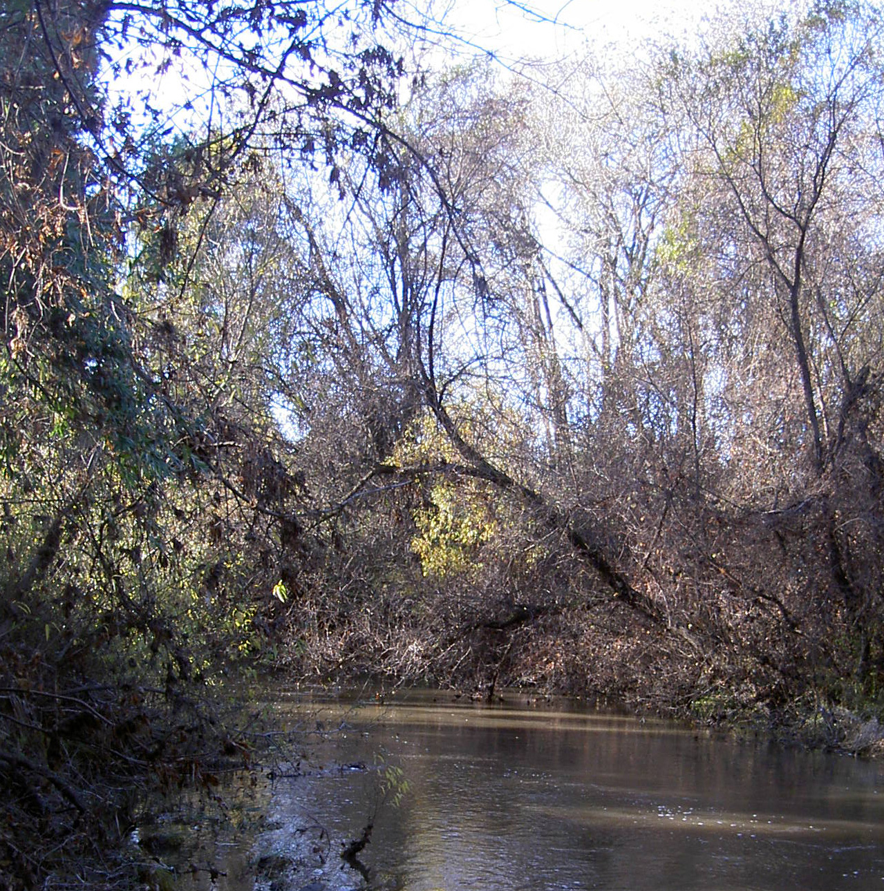 Photo of Mark West Creek in Sonoma County taken from under the Wohler Road bridge, looking downstream, on December 7, 2007 by Stephen Gold. Cropped using Adobe Photoshop Elements.